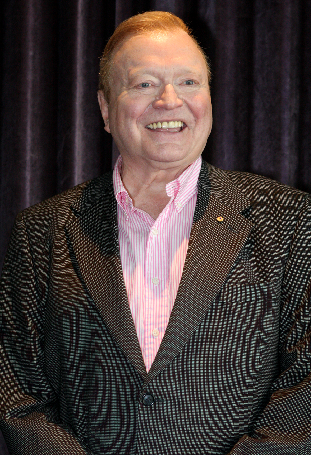 GREASE: The No.1 Party Musical media event at Hard Rock Cafe, Darling Harbour, Sydney, Australia - 24th March 2013